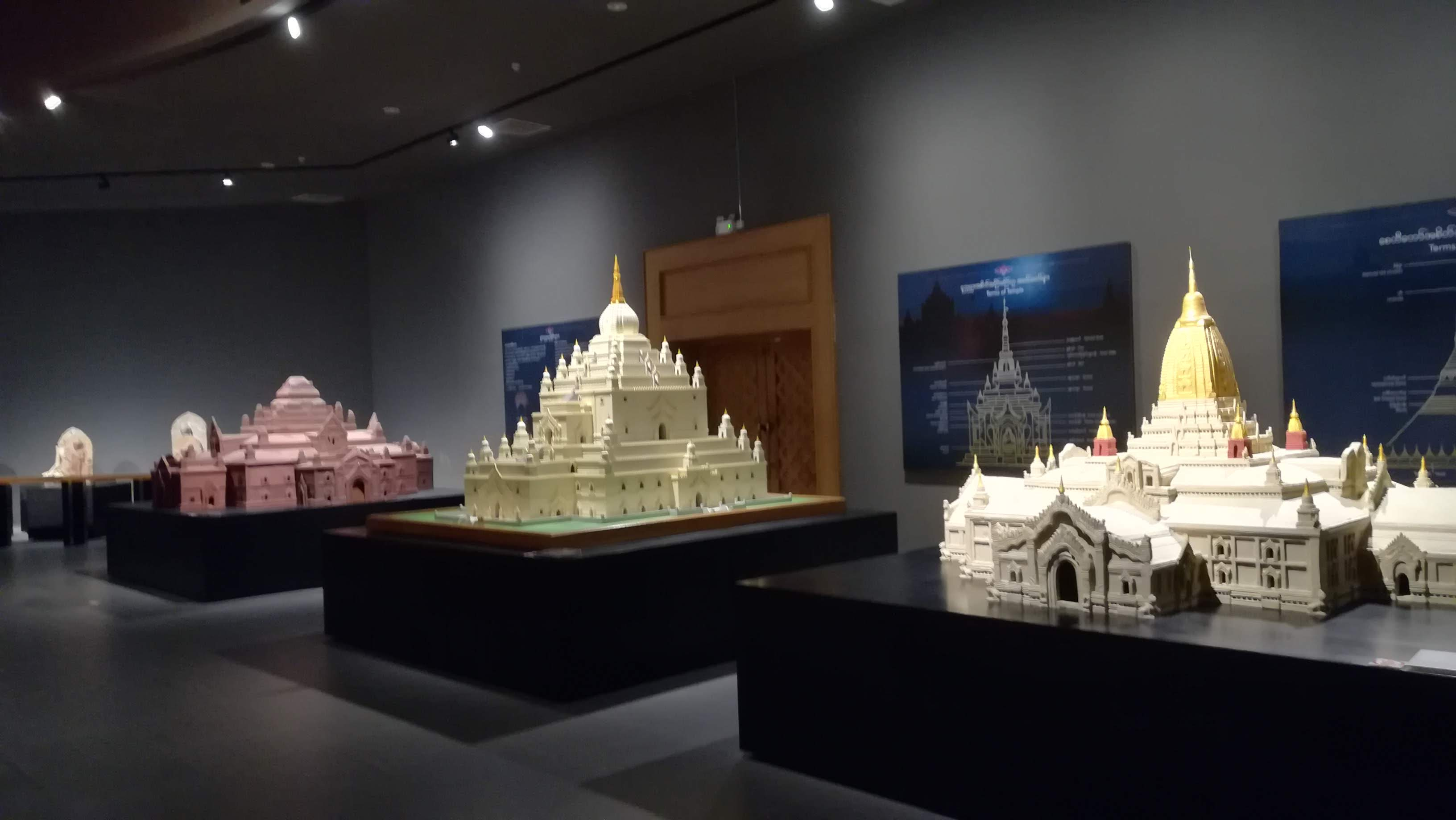 Miniature models of pagodas at UNESCO World Heritage Site Bagan, in National Museum, Naypyidaw, Myanmar, Sep 2019